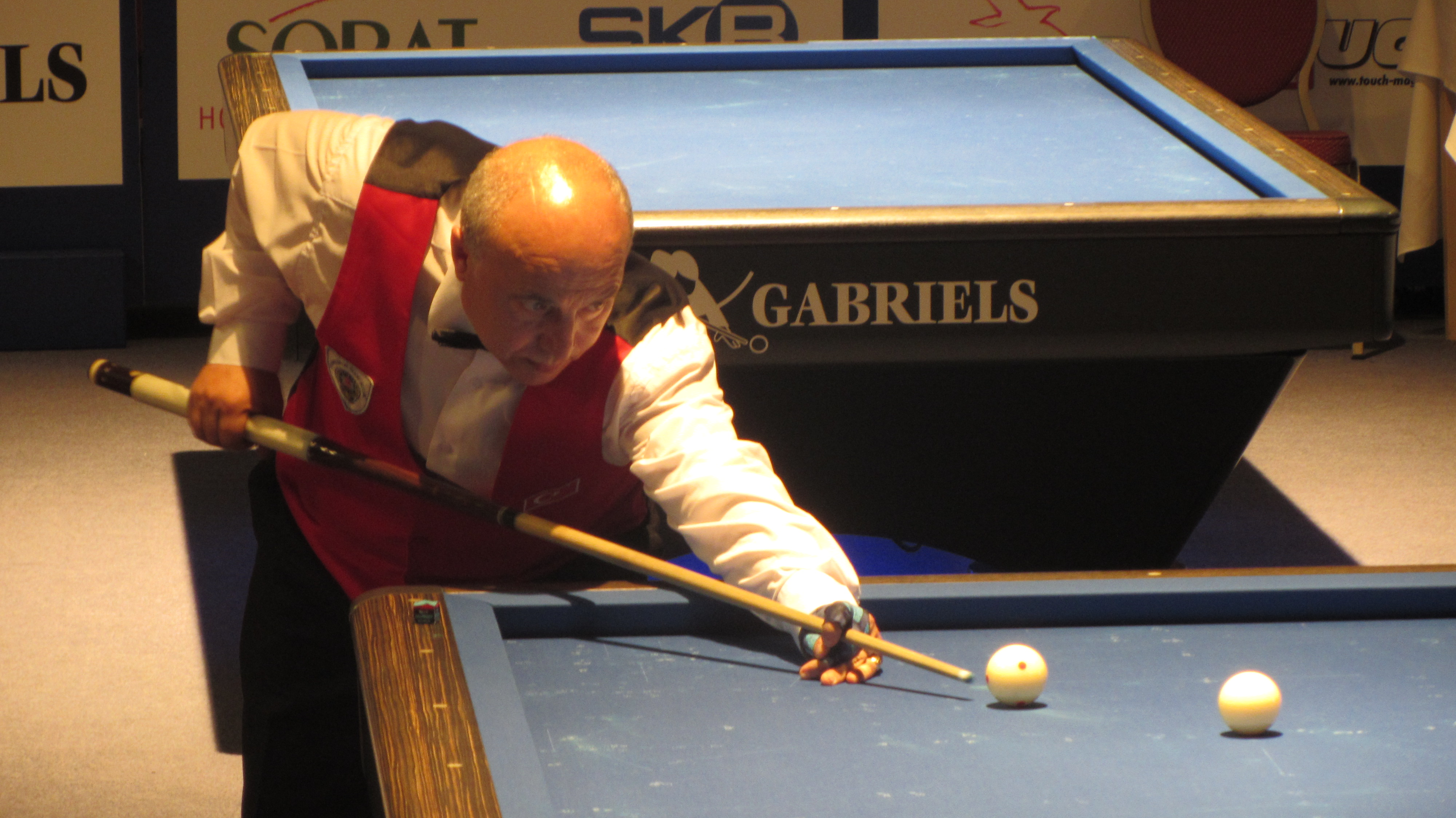 2013 European Carom Billiards Championship in Brandenburg/Havel, Germany.